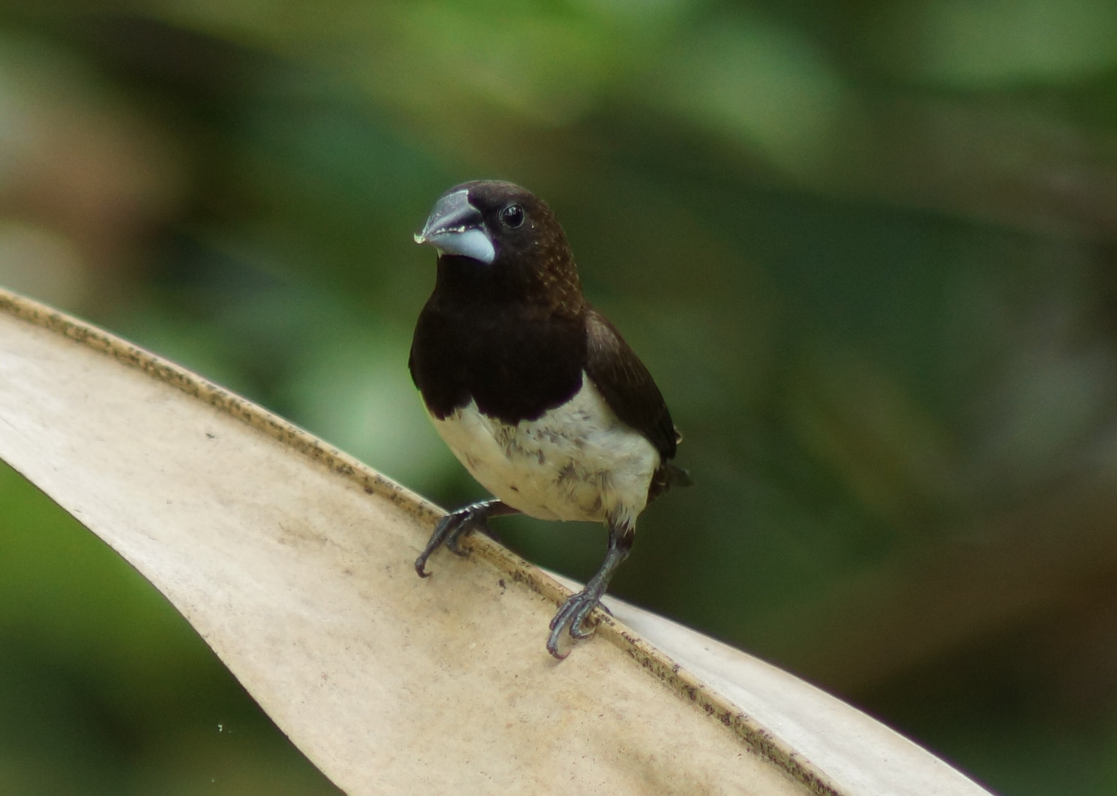 White-rumped Munia